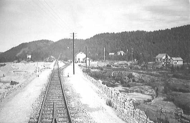 Birkenes Station on the Sørland Line in Norway